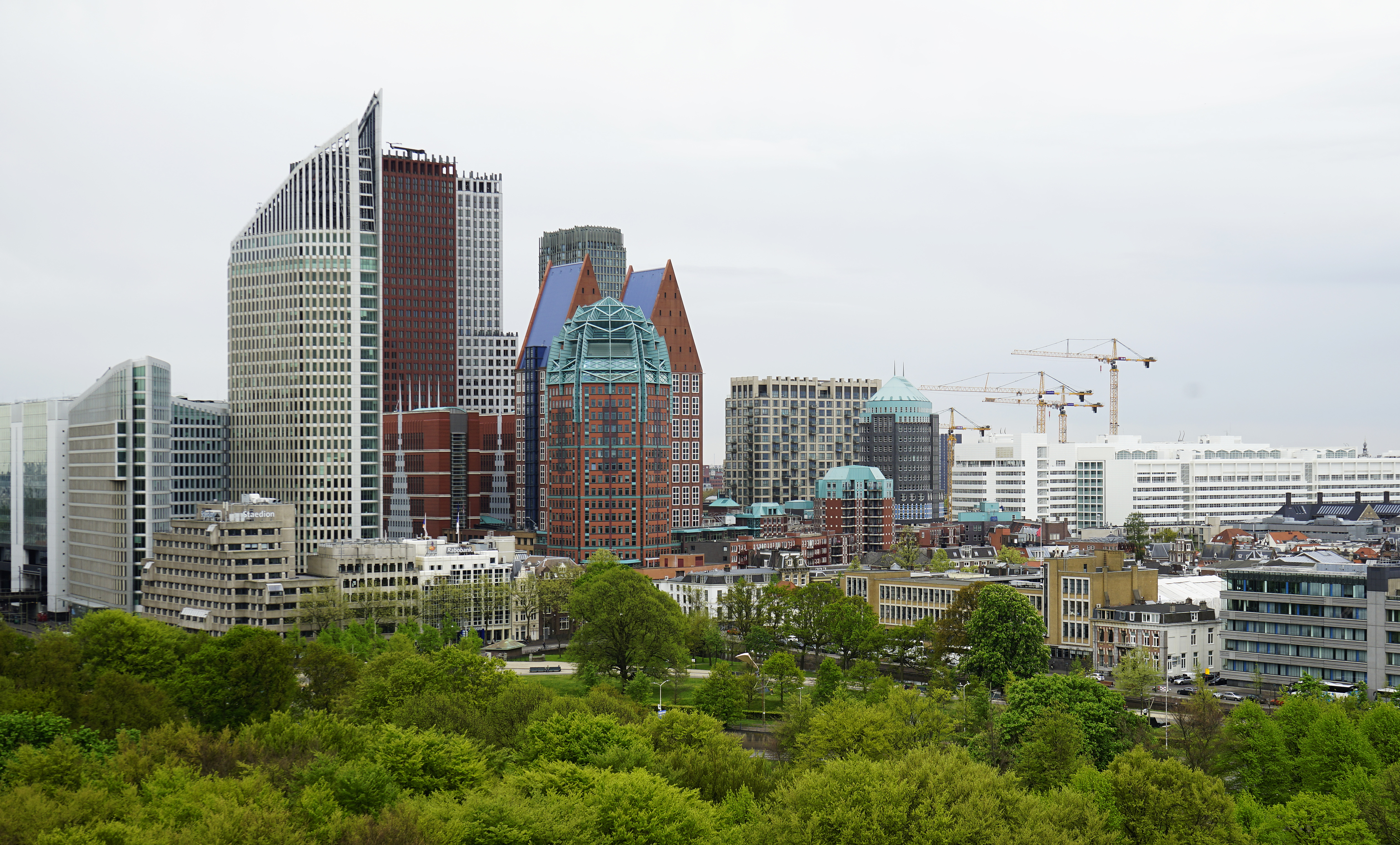 The Hague city center, Netherlands